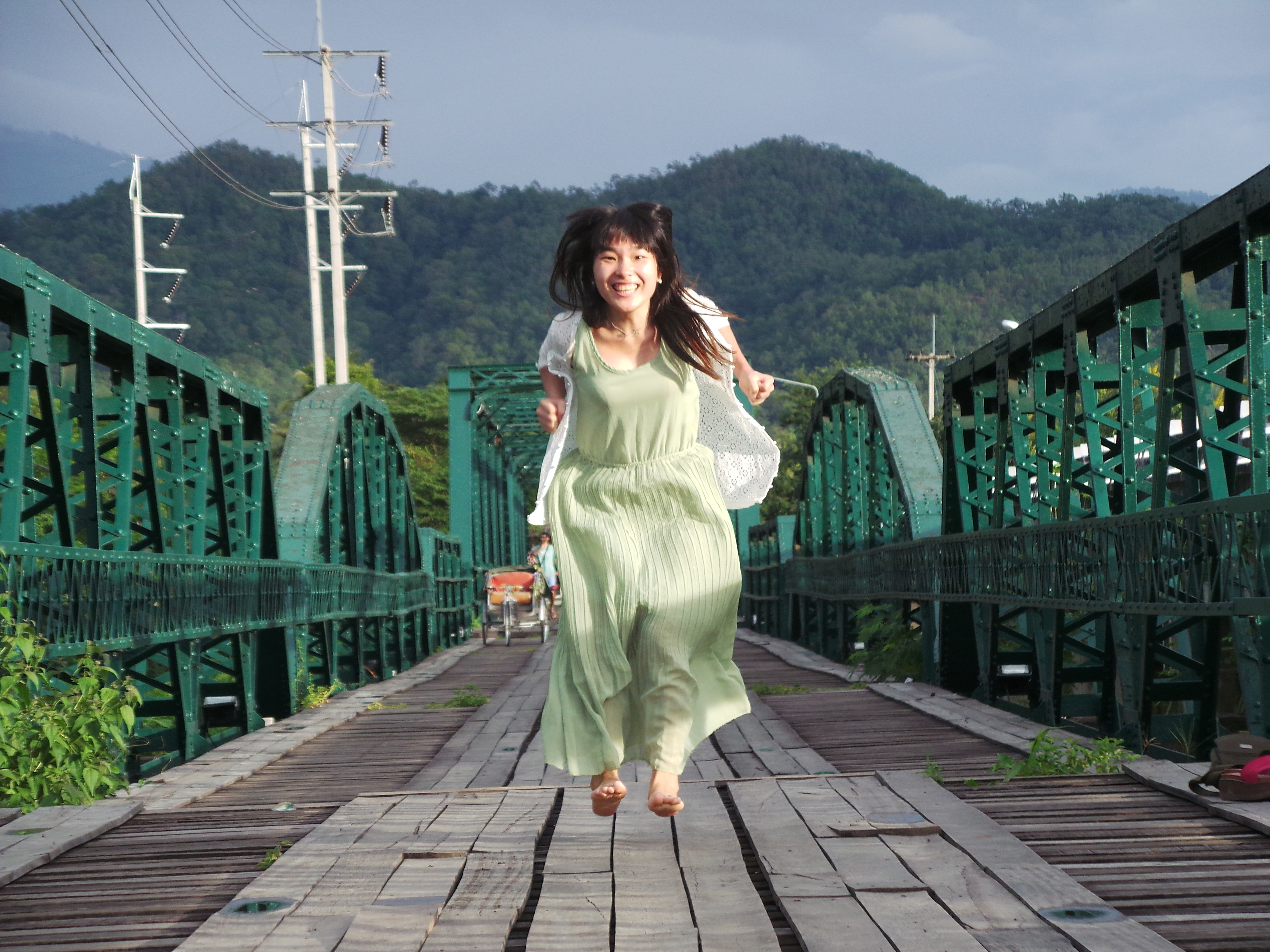 girl jumping on bridge